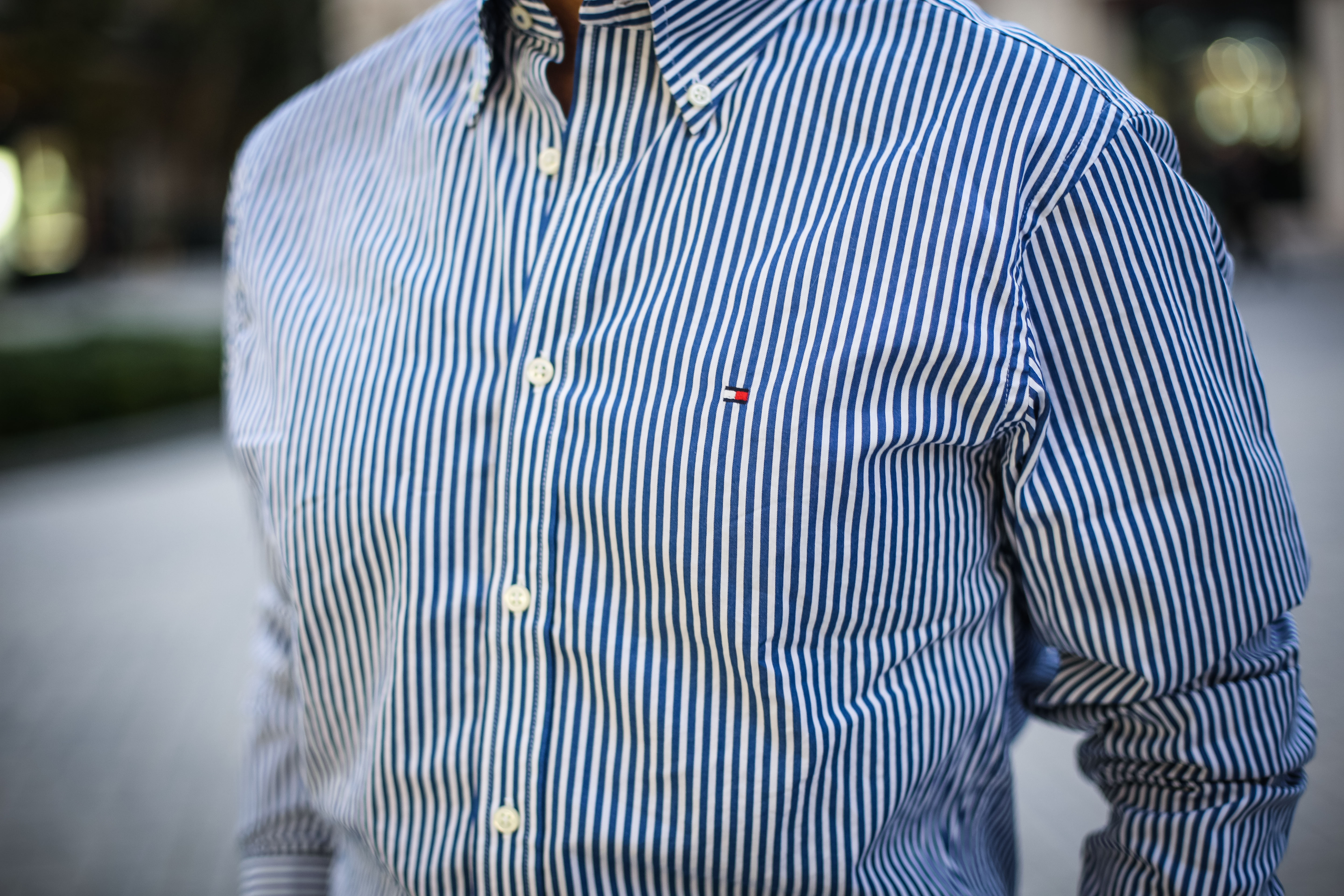 Tommy Hilfiger Azerbaijan